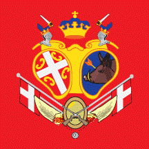 Flag of the city and municipality of Topola in Serbia, derived from the War flag of the First Serbian Uprising